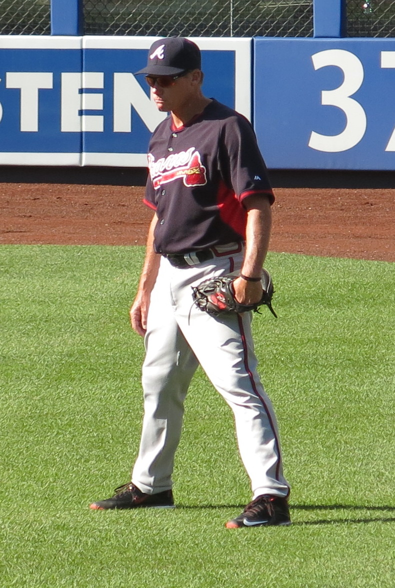 José Castro of the Atlanta Braves, June 17, 2016.